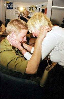 "A Mother's Voice", a weekly radio program on the IDF Radio channel (Galatz), features the mother of a soldier who talks about their son or daughter, their child's service in the IDF, hobbies, and family. Sgt. Lior Ziv photographed a mother and her son in the IDF Radio studio following "A Mother's Voice". Sgt. Lior Ziv was a photographer in the IDF Spokesperson's Unit. During his army service, he took thousands of photos ranging from portraits of senior commanders, combat training exercises, and soldier musicians. On April 14th, 2003, Lior set out to photograph the Givati infantry brigade uncover a smuggling tunnel in the Gaza Strip. This was at the height of the Second Intifada. He and two other soldiers were to follow the Givati soldiers as they entered a terror suspect's house. Lior snapped dozens of photos at the beginning of the mission, capturing the moment soldiers got out of their armored vehicle, and slowly walked into the house. Minutes after they entered the first house, Lior and the soldiers with him were attacked. Lior was shot and killed on the spot. Lior's website can be found at